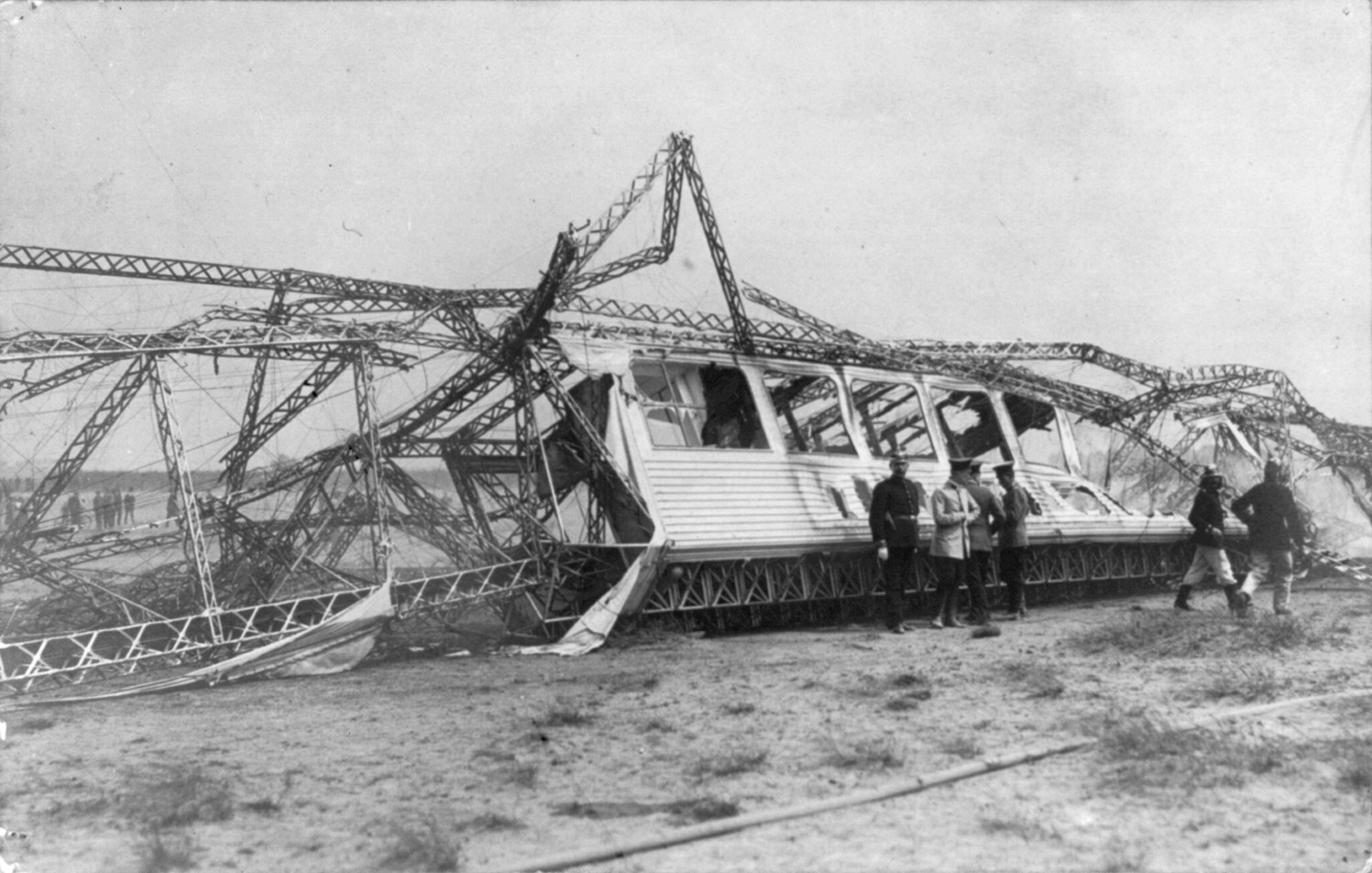 Wreck of the German Imperial Navy Zeppelin L.2 (LZ 18), which crashed on 17 October 1913 at Berlin-Johannisthal.